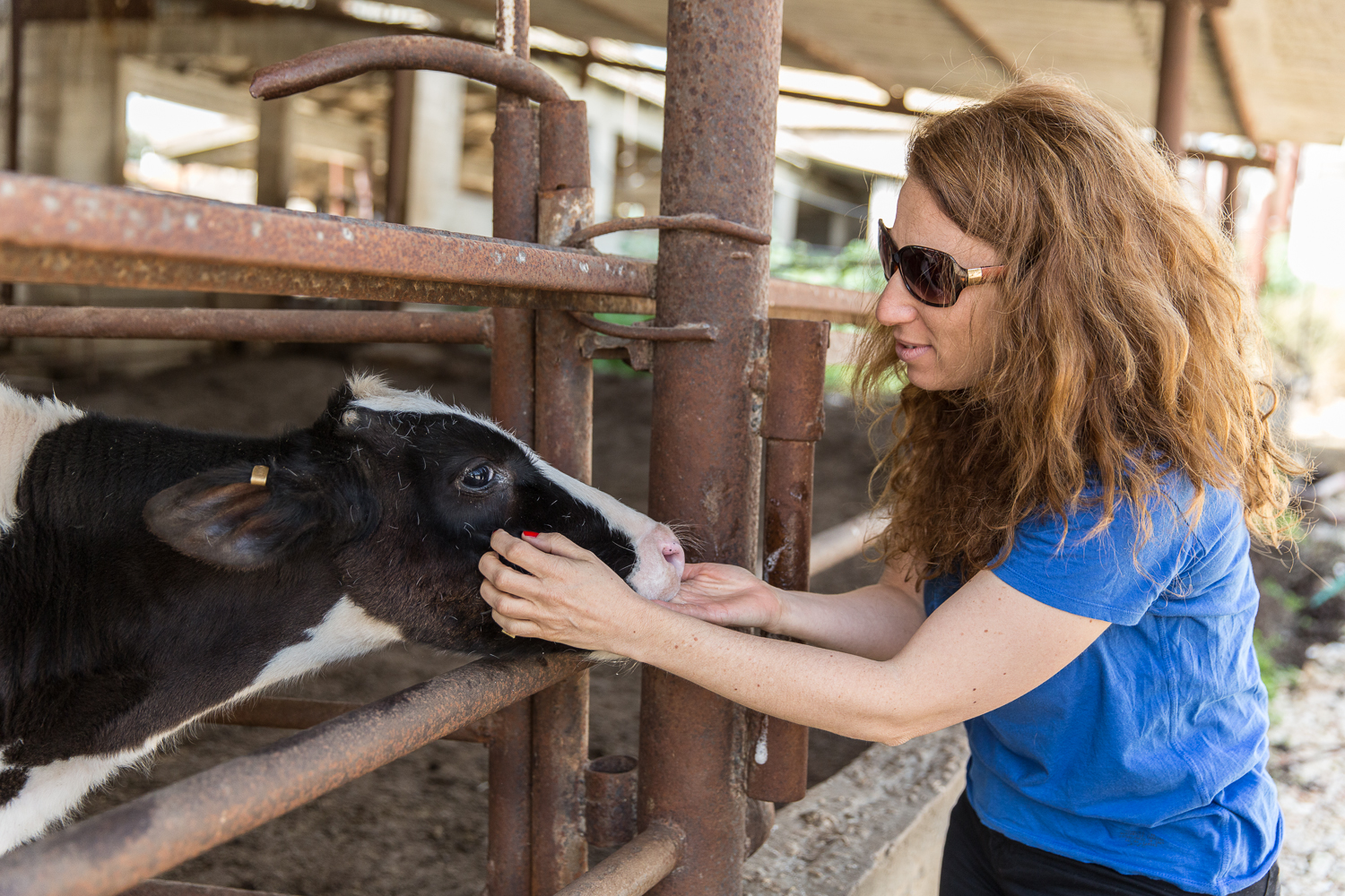 Ori Shavit - Animal Rights activist, Journalist, Food Critic, Blogger